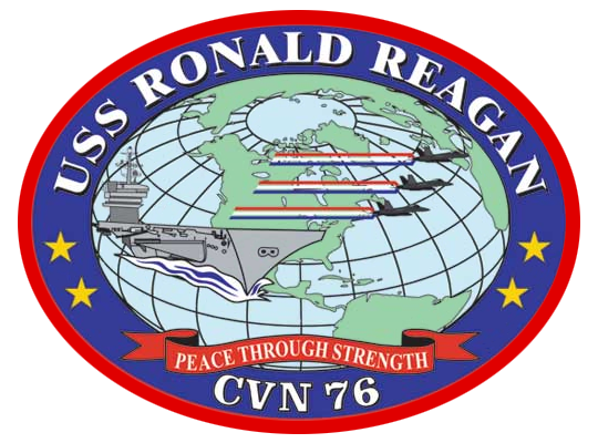 Insignia of the USS Ronald Reagan (CVN-76).